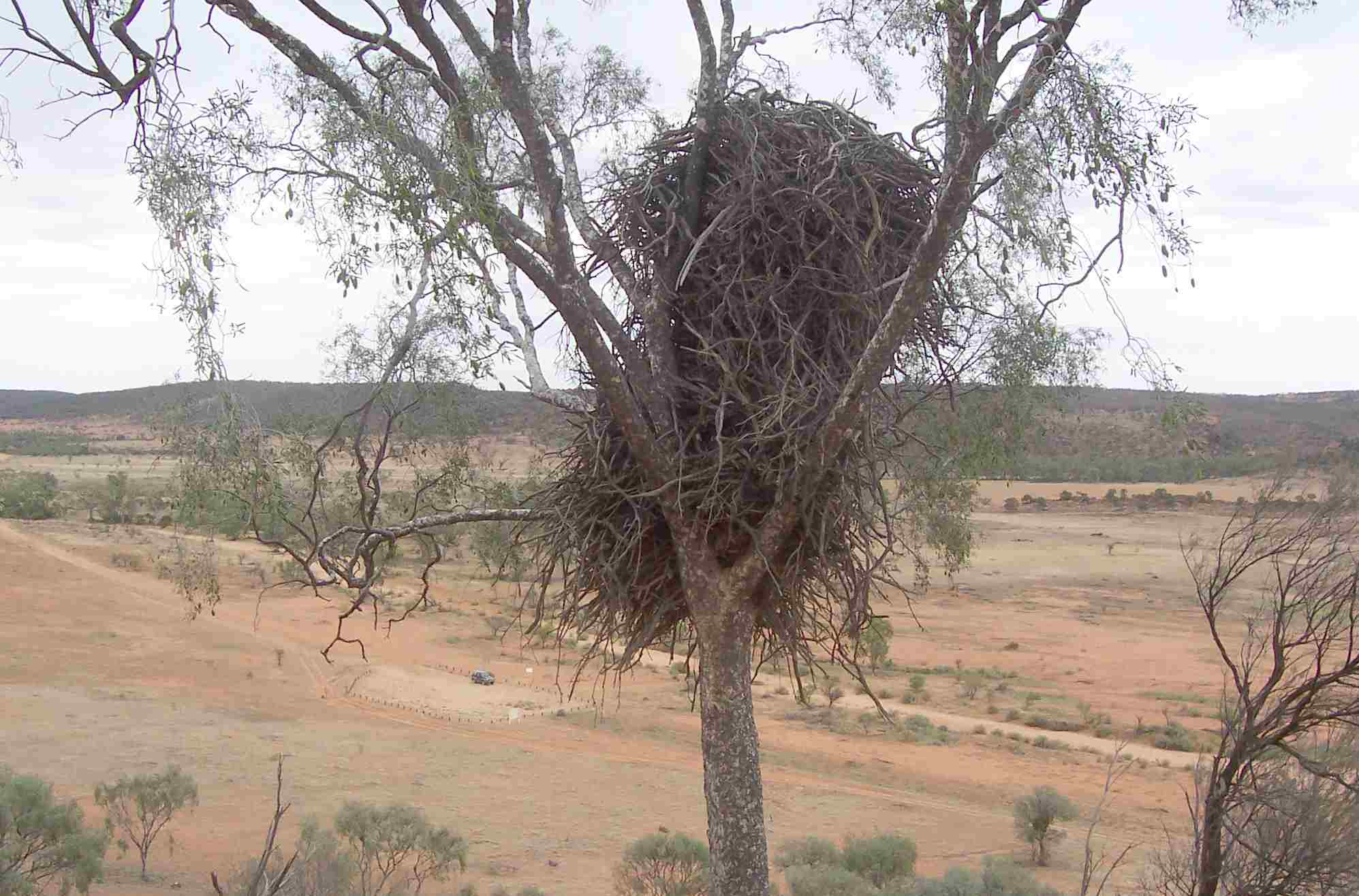 Mutawintji & Wedge Tail Eagle Nest with Flindersia trees